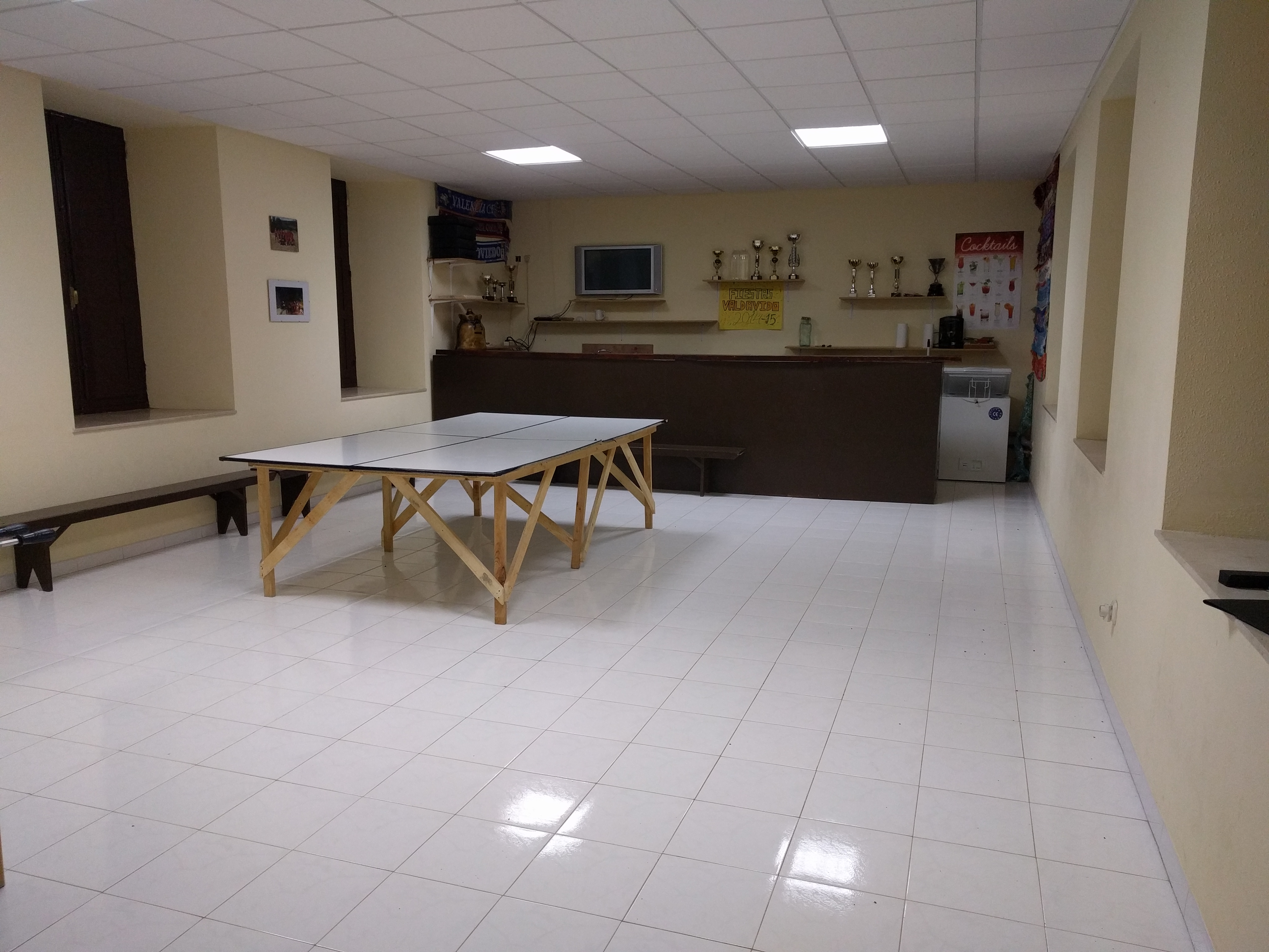 Antigua escuela de Valdavido, planta baja